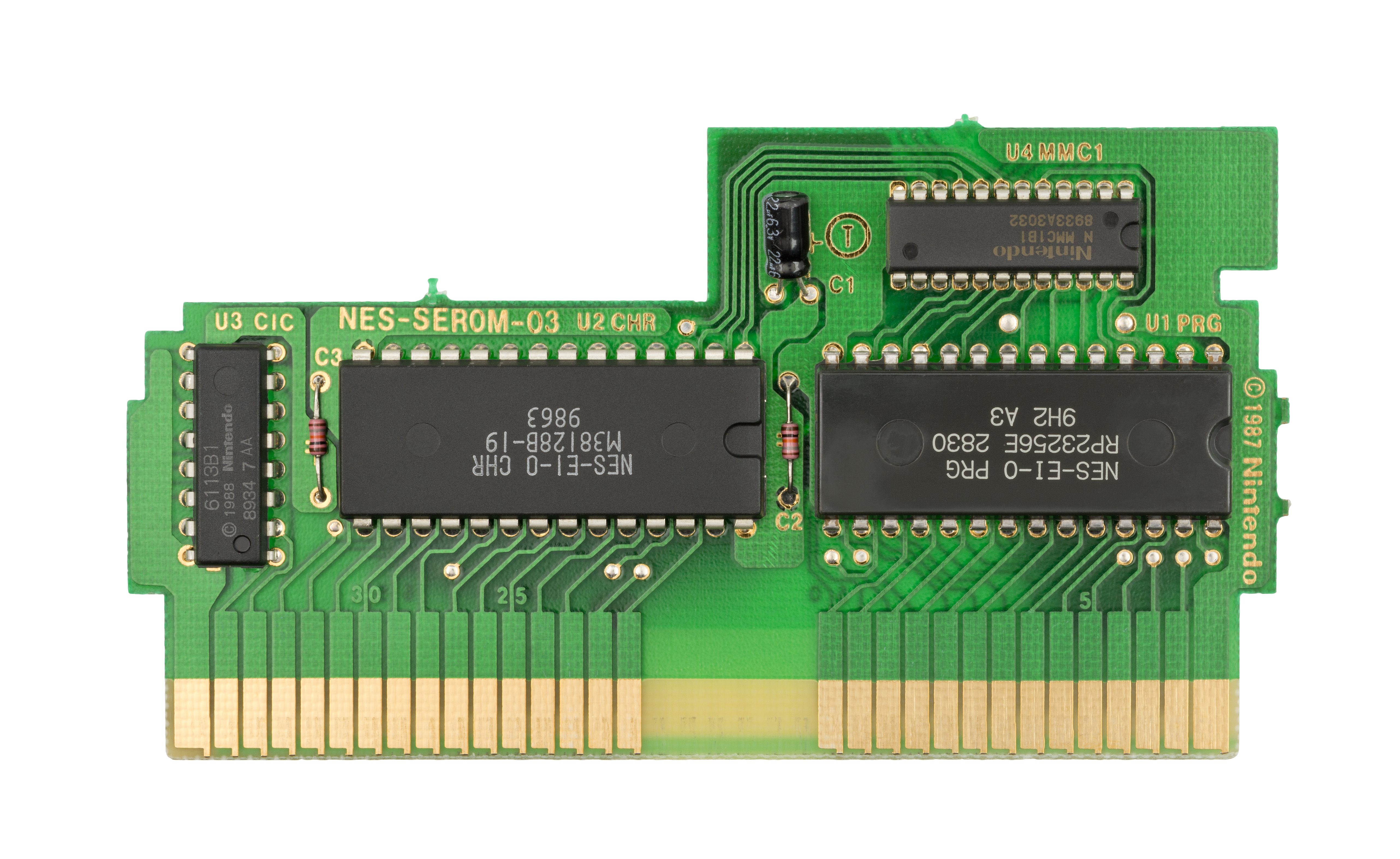 The game cartridge board from the NES version of Tetris. The board shows the 10NES lockout chip, game ROMS and an MMC1 chip.